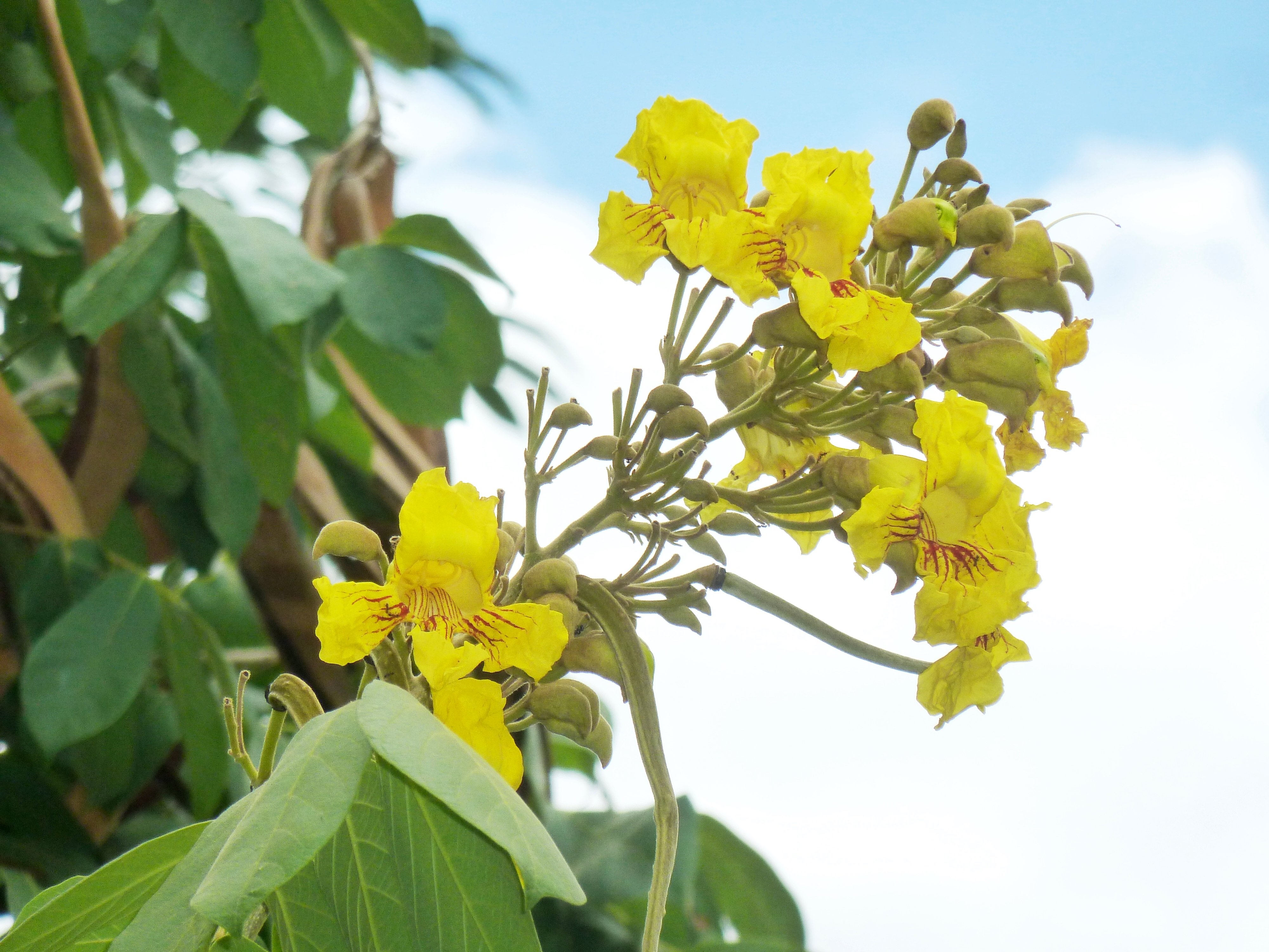 Inflorescence of a Golden bean tree in the Manie van der Schijff Botanical Garden, Pretoria